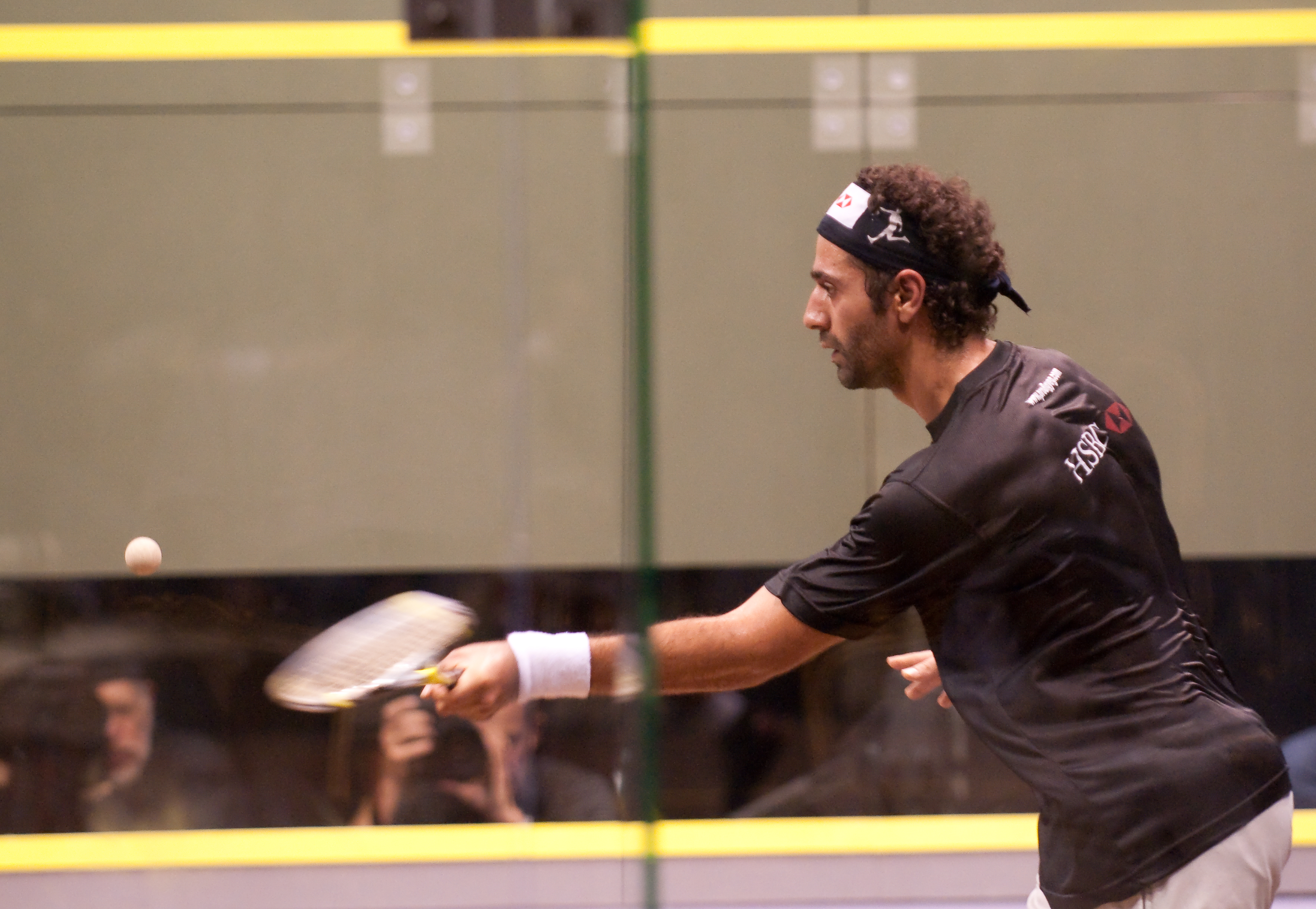 Semi Finals James Willstrop vs. Amr Shabana